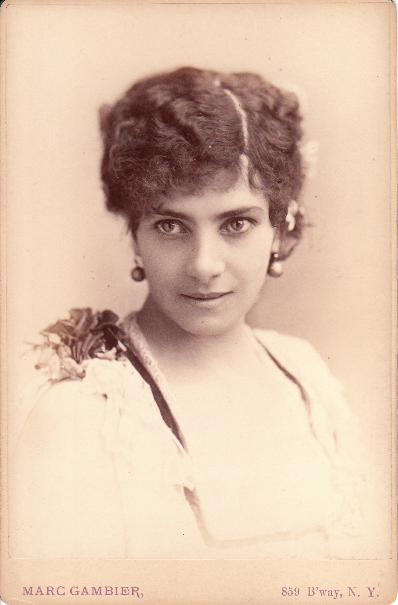 circa 1870s portrait of American stage and screen actress Jennie Lee (1848 -1925) taken by Marc Gambier (1838-1900).